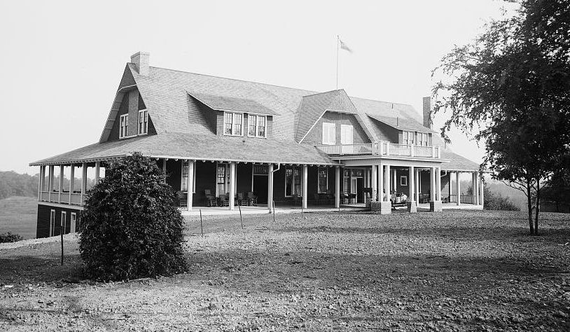 The "old" Cherokee Country Club in Knoxville, Tennessee, USA, photographed circa 1910. This building was demolished and replaced by the current clubhouse in 1928. Original image cropped to show more detail of the building.